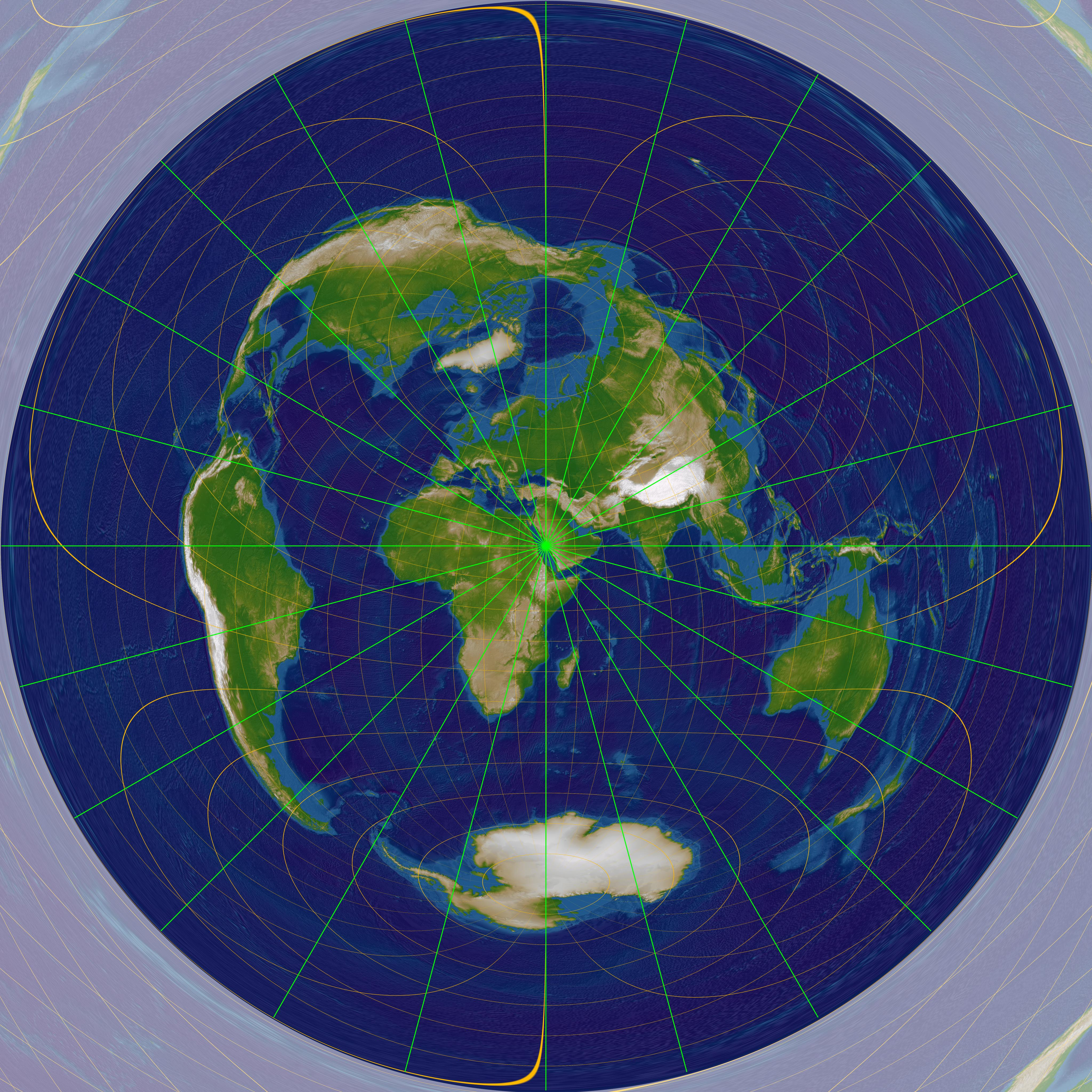 Equidistant azimuthal projection, centered to Mecca and green lines showing the Qibla (shortest direction to Kaaba in Mecca, 21° 25′ 21″ N, 39° 49′ 34″ E).